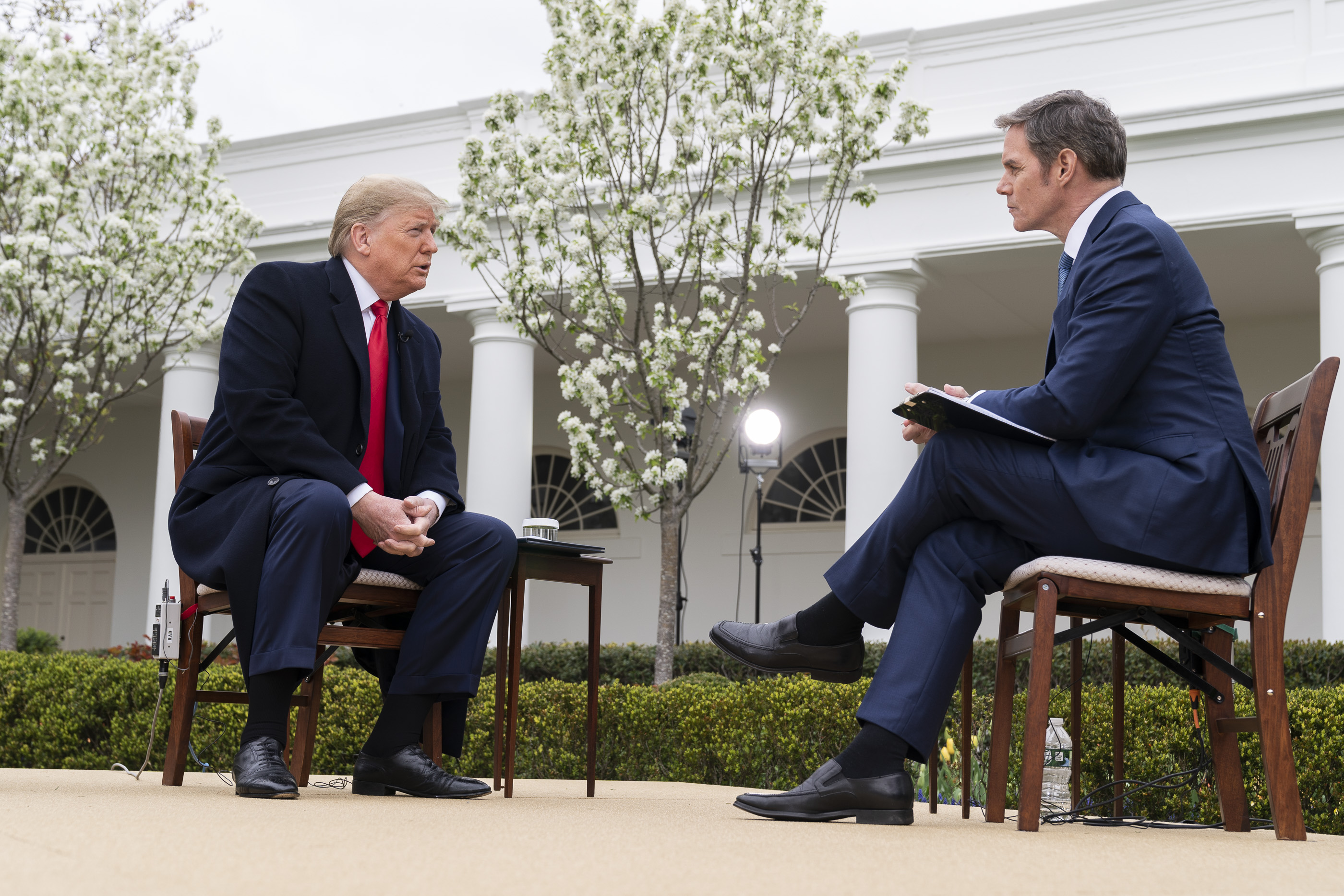 President Donald J. Trump participates in a virtual Fox News Town Hall with interviewer Bill Hemmer Tuesday, March 24, 2020, in the Rose Garden of the White House. (Official White House Photo by Shealah Craighead)